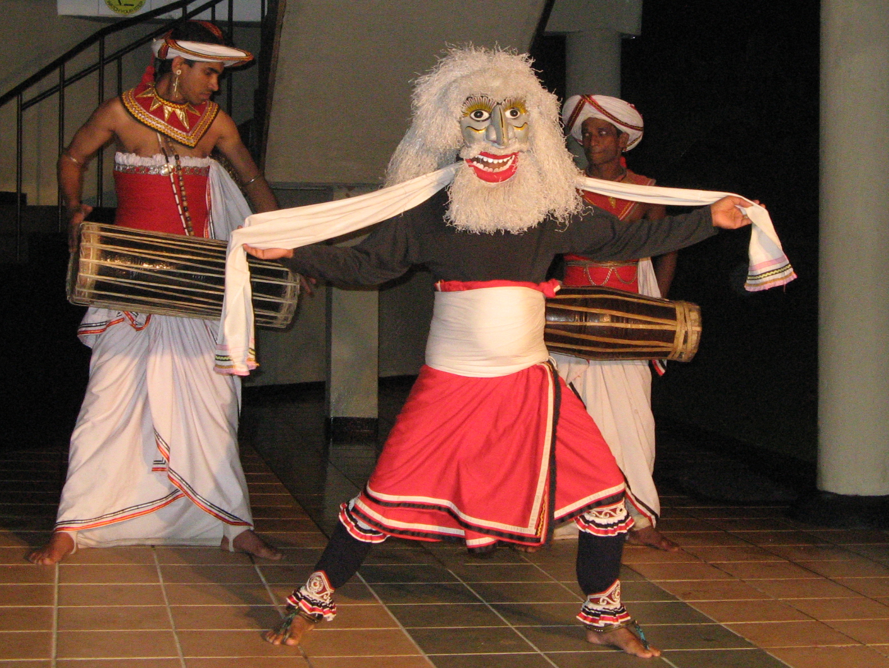 Pathi Dance Troupe, Kandy. Kolam, literally "impersonation," uses elaborate masks to portray characters from a story and deliver social commentary.